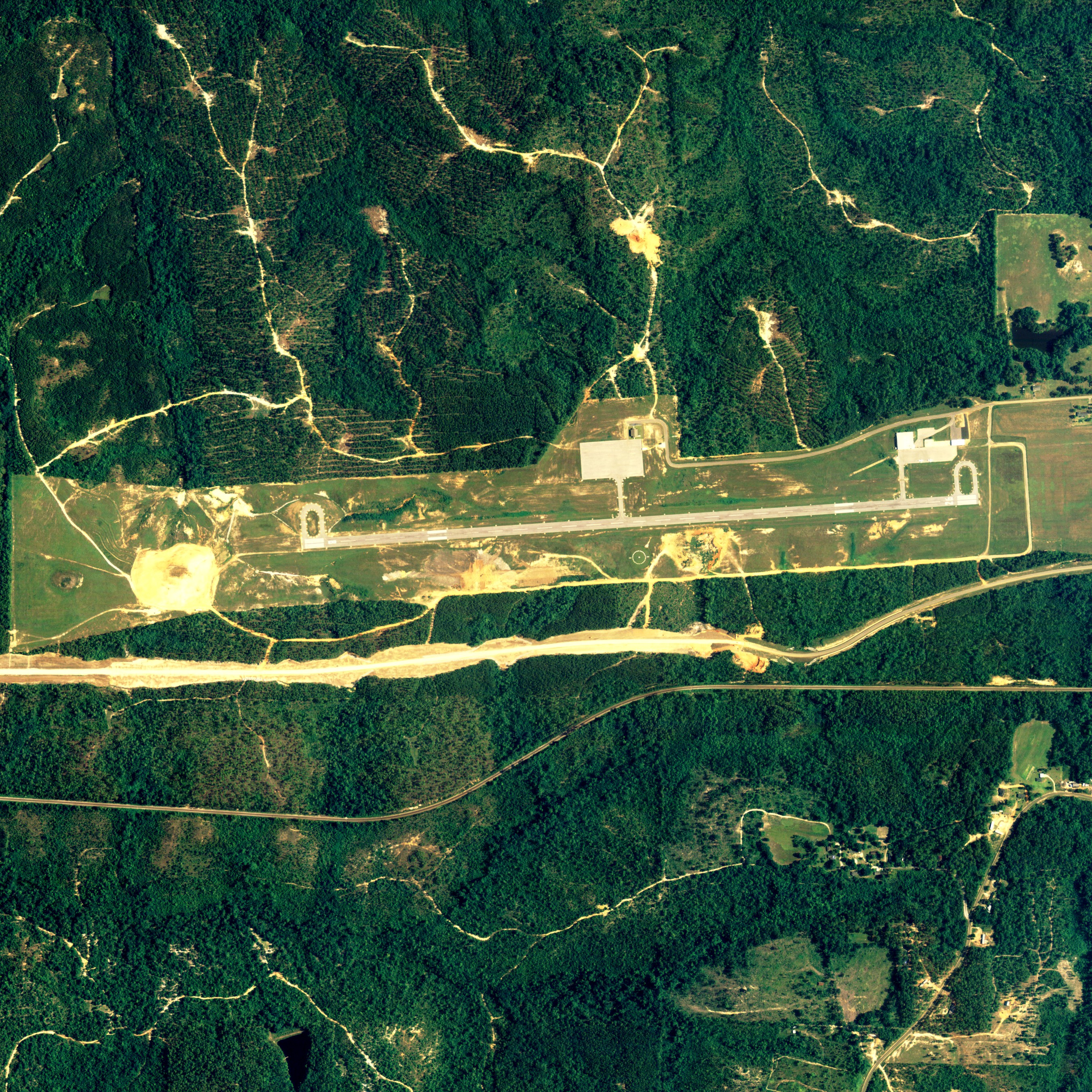 Aerial image of Bay Minette Municipal Airport in Bay Minette, Alabama, United States